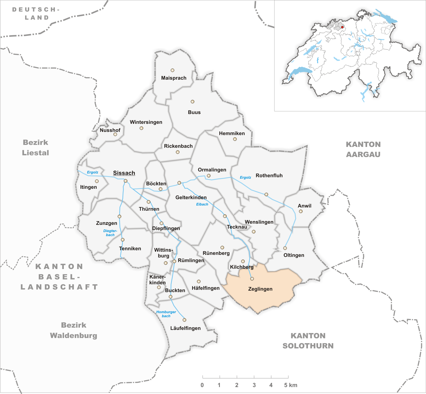 Municipality Zeglingen